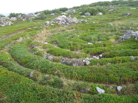 Turf maze - labyrinth on Bolshoi Zayatsky Island